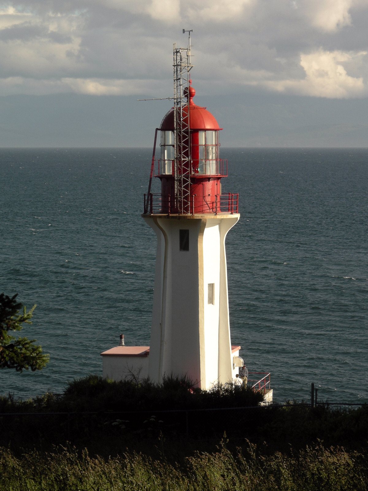 Sheringham Point Lighthouse. Own work.